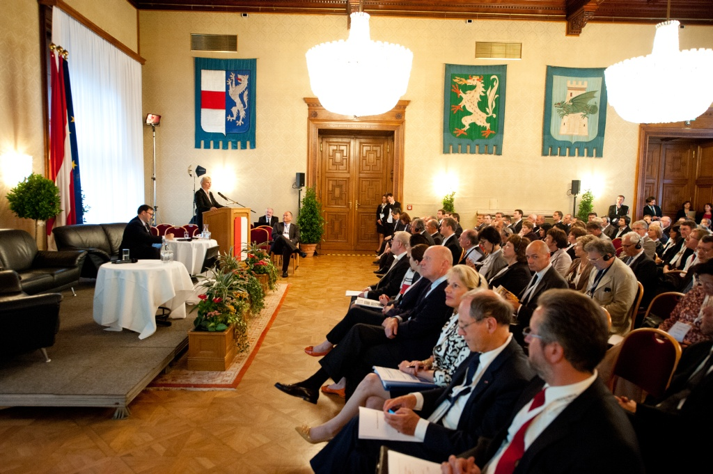 Major Cities of Europe annual conference 2012, Vienna Vienna Town Hall